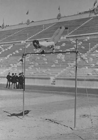 Herman Weingaertner on horizontal bar during 1896 Summer Olympics